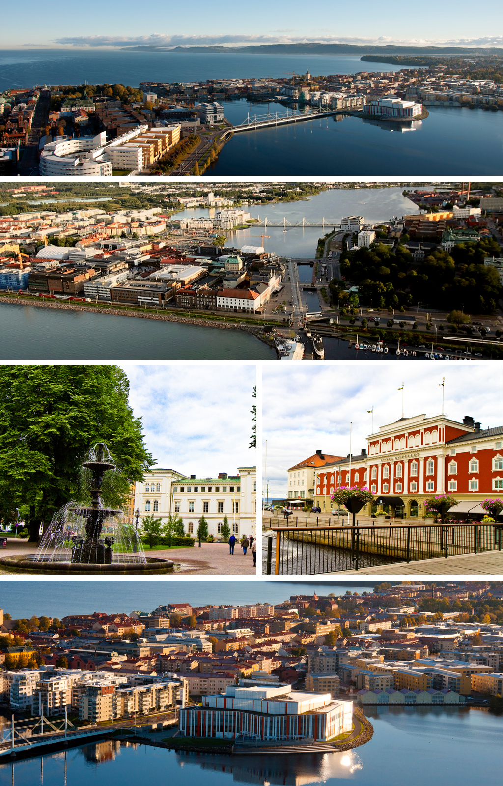 pictures has been fetched from where the publisher has, in swedish, mentioned that the pictures can be used to promote Jönköping.